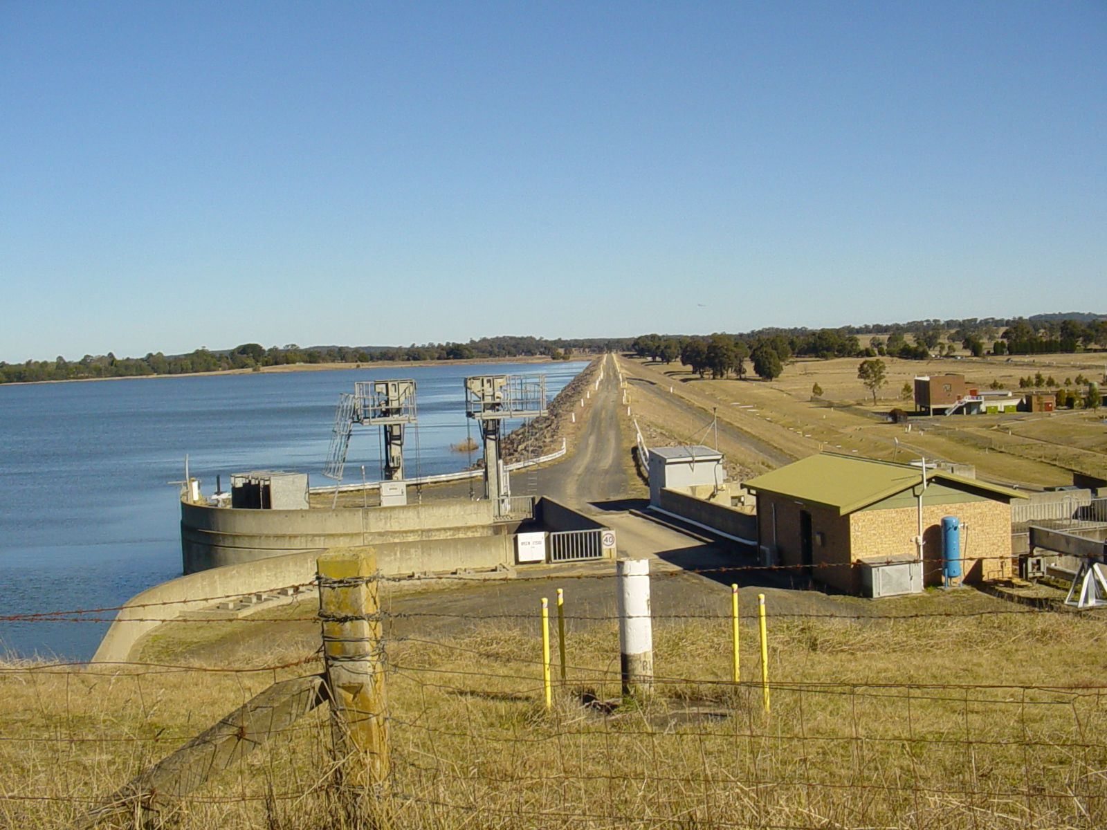 A photograph Knows took of Wingecarribee Reservoir on the 17th of July 2010 . Reported storage at the time of the photo was 76.9% of capacity. Uploaded for the Shoalhaven Scheme article.